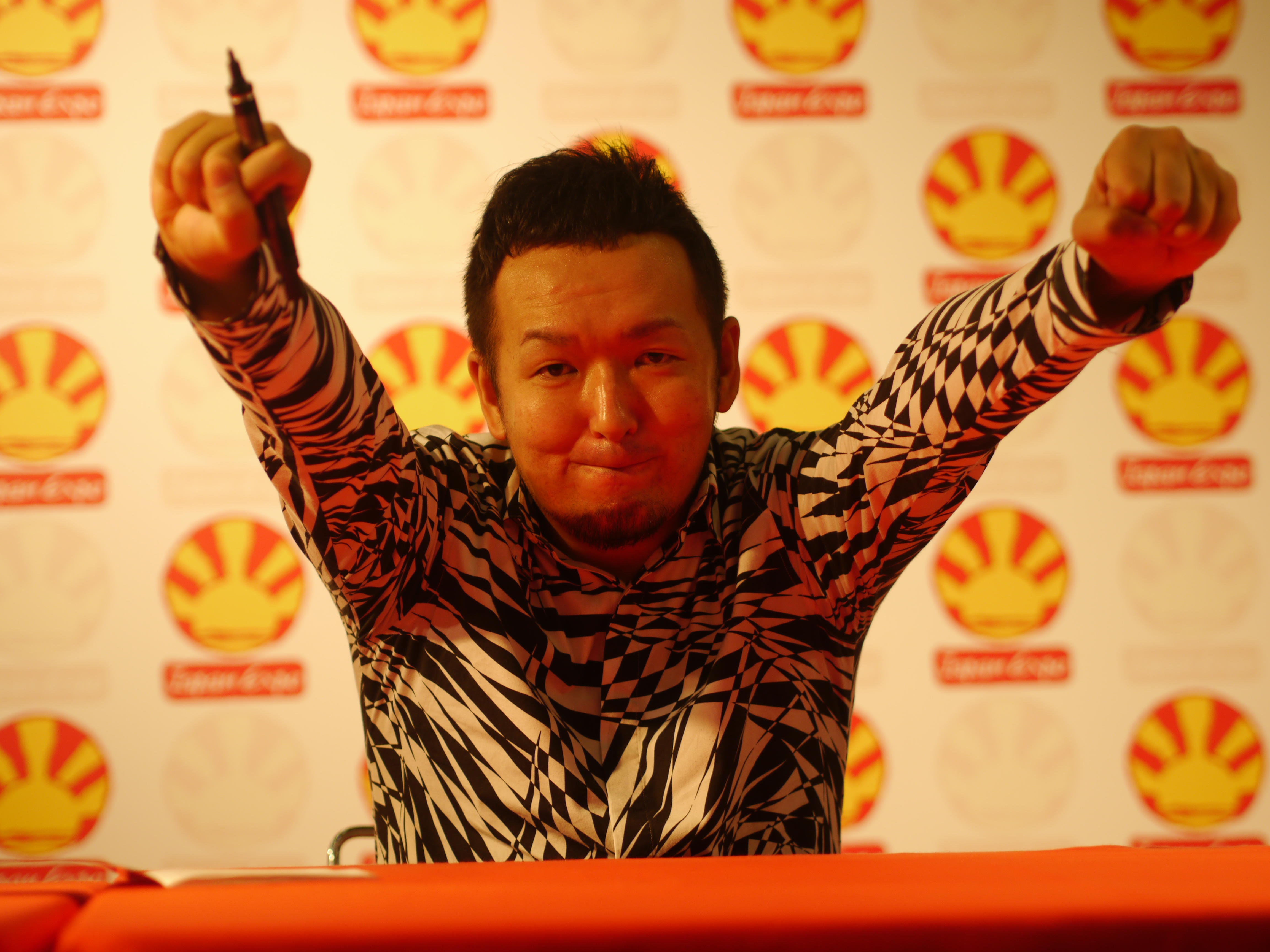 Japan Expo Festival, 13th impact